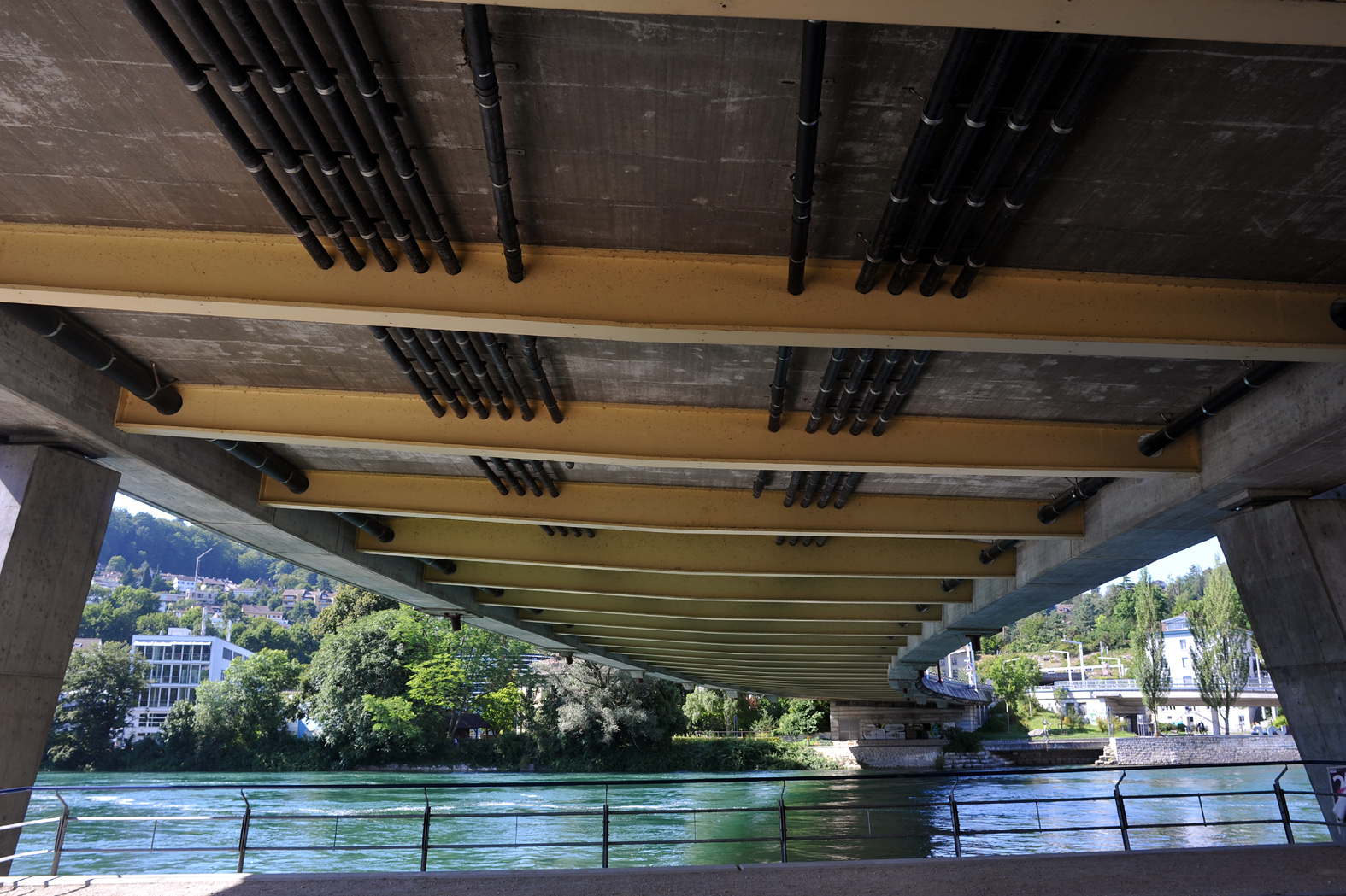 Highway bridge over river Rhine between Schaffhausen and Flurlingen; Schaffhausen and Zurich, Switzerland.